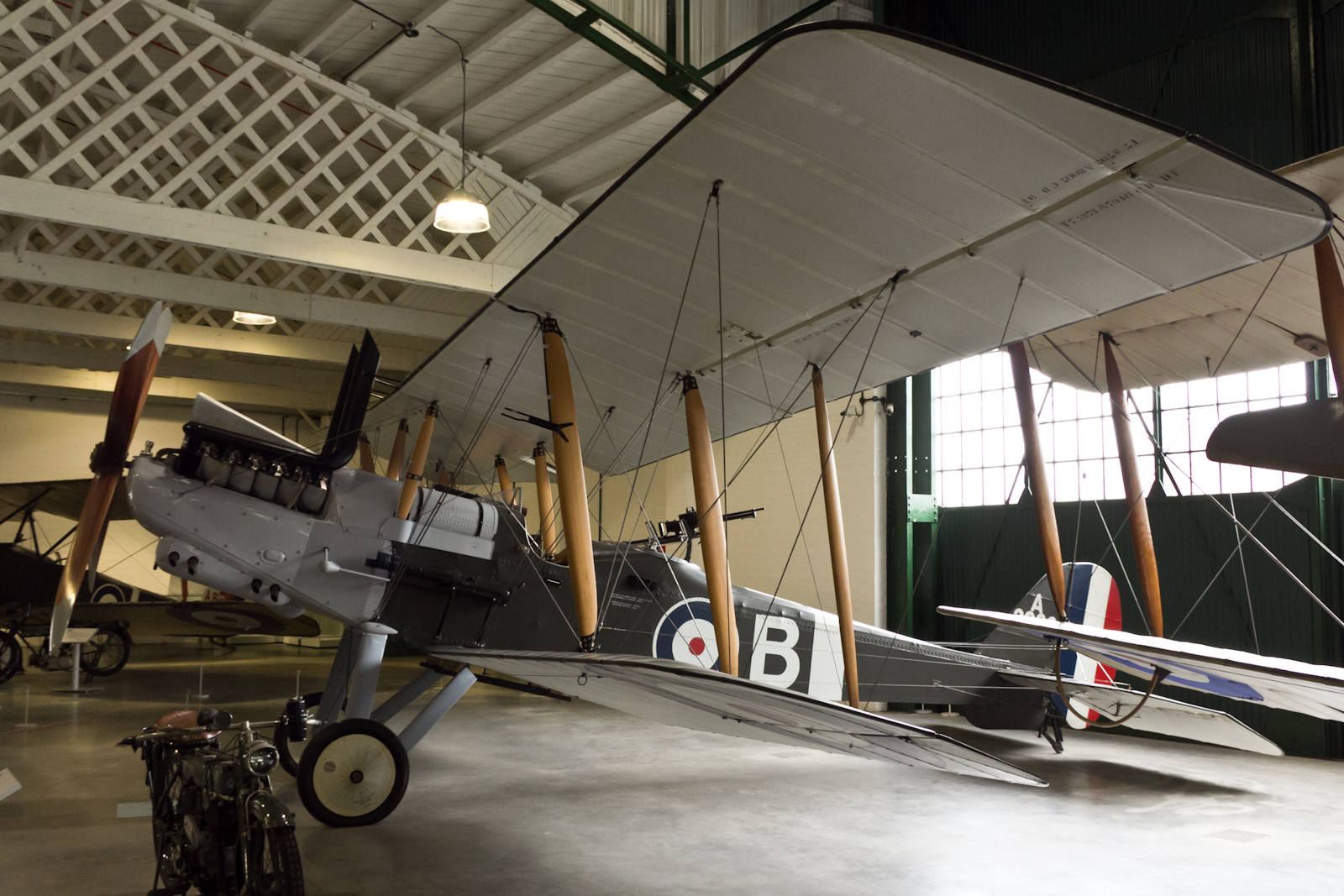 Replica of Royal Aircraft Factory R.E.8 at the RAF Museum in Hendon